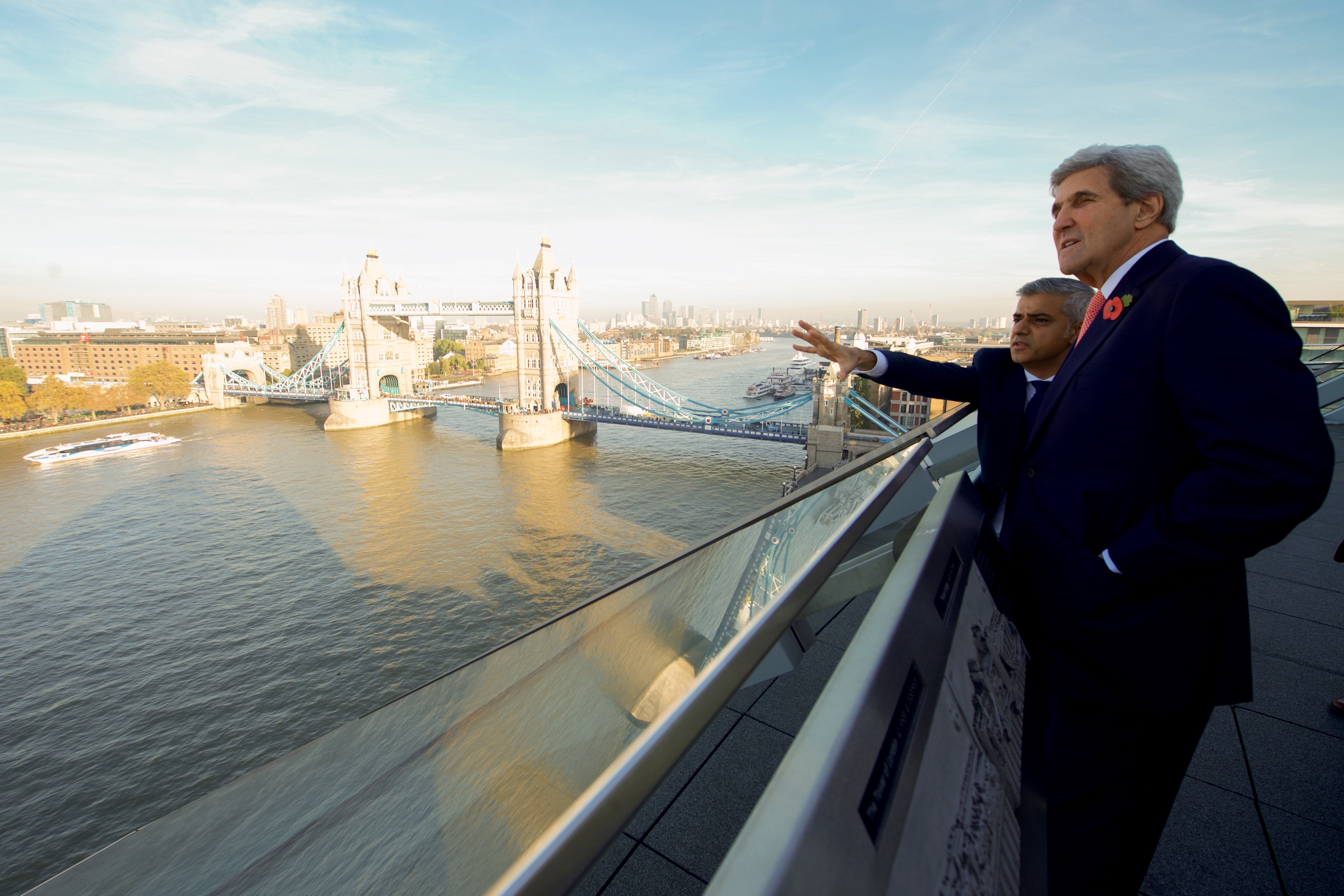 London Mayor Sadiq Khan shows U.S. Secretary of State John Kerry the view from his office before they met and held a question-and-answer session about foreign affairs with young Londoners, British residents, and American visitors on October 31, 2016, at London City Hall in London, U.K. [State Department photo/ Public Domain]